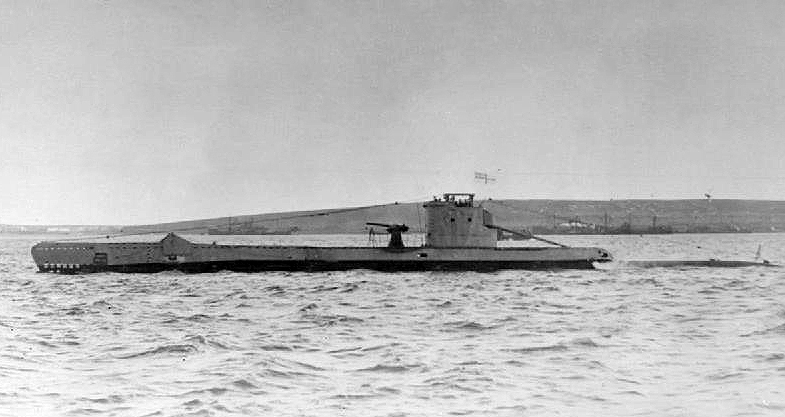 British U class submarine HMSM URGE underway.